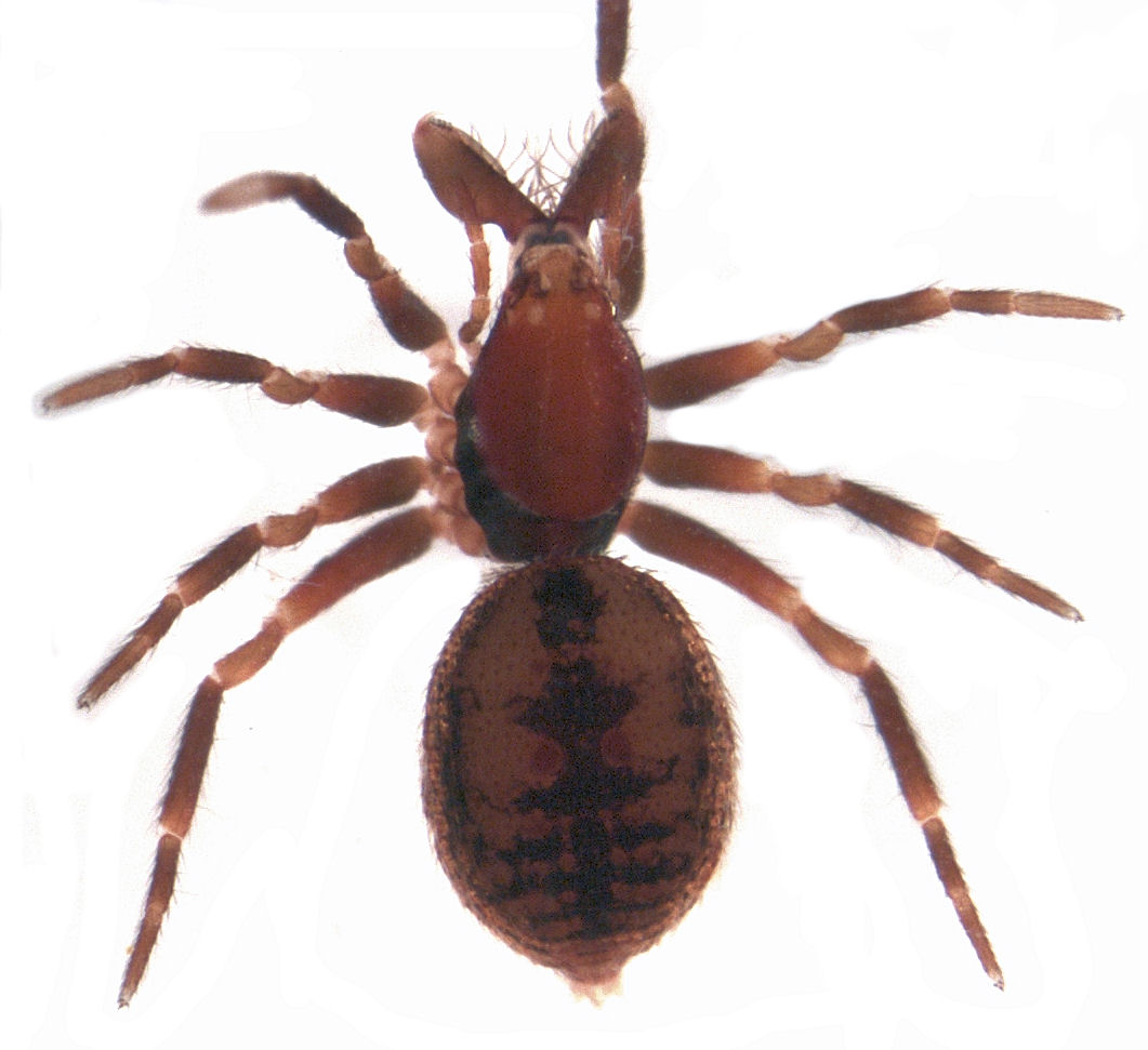 adult female Forstrarchaea rubra